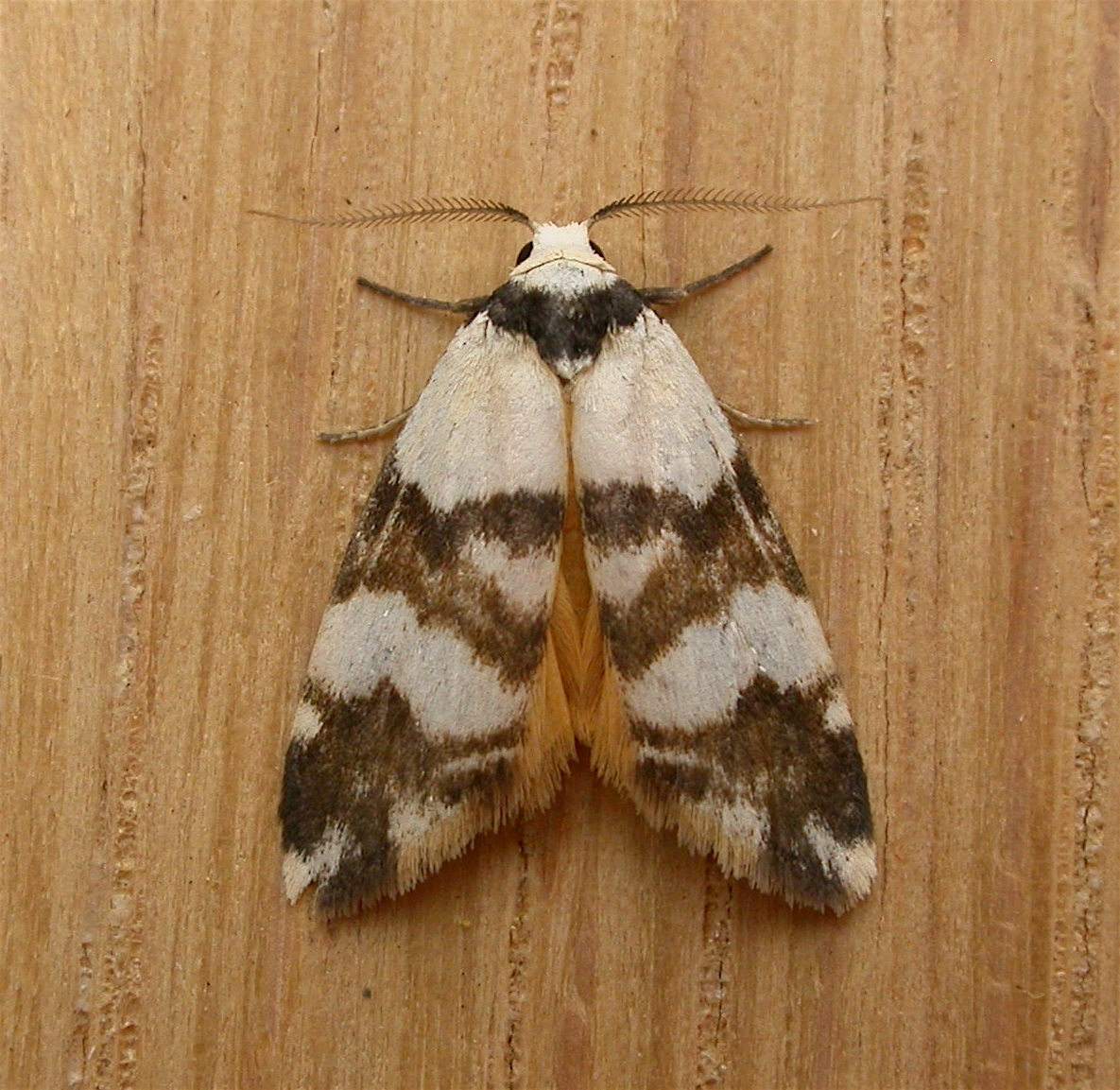 Thallarcha albicollis (R. Felder & Rogenhofer, 1875), to MV light, Aranda, ACT, 31 October/1 November 2008